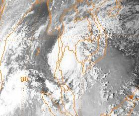 Typhoon Linda near its landfall on the Malay Peninsula on November 3, 1997